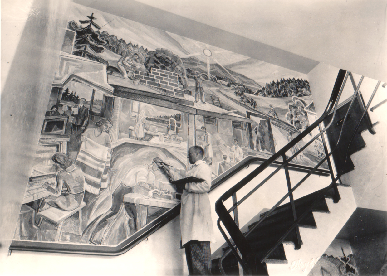 The norwegian visual artist Halvard Hatlen (1899-1957) decorating the wall at Romerike Folkehøgskole, Jessheim